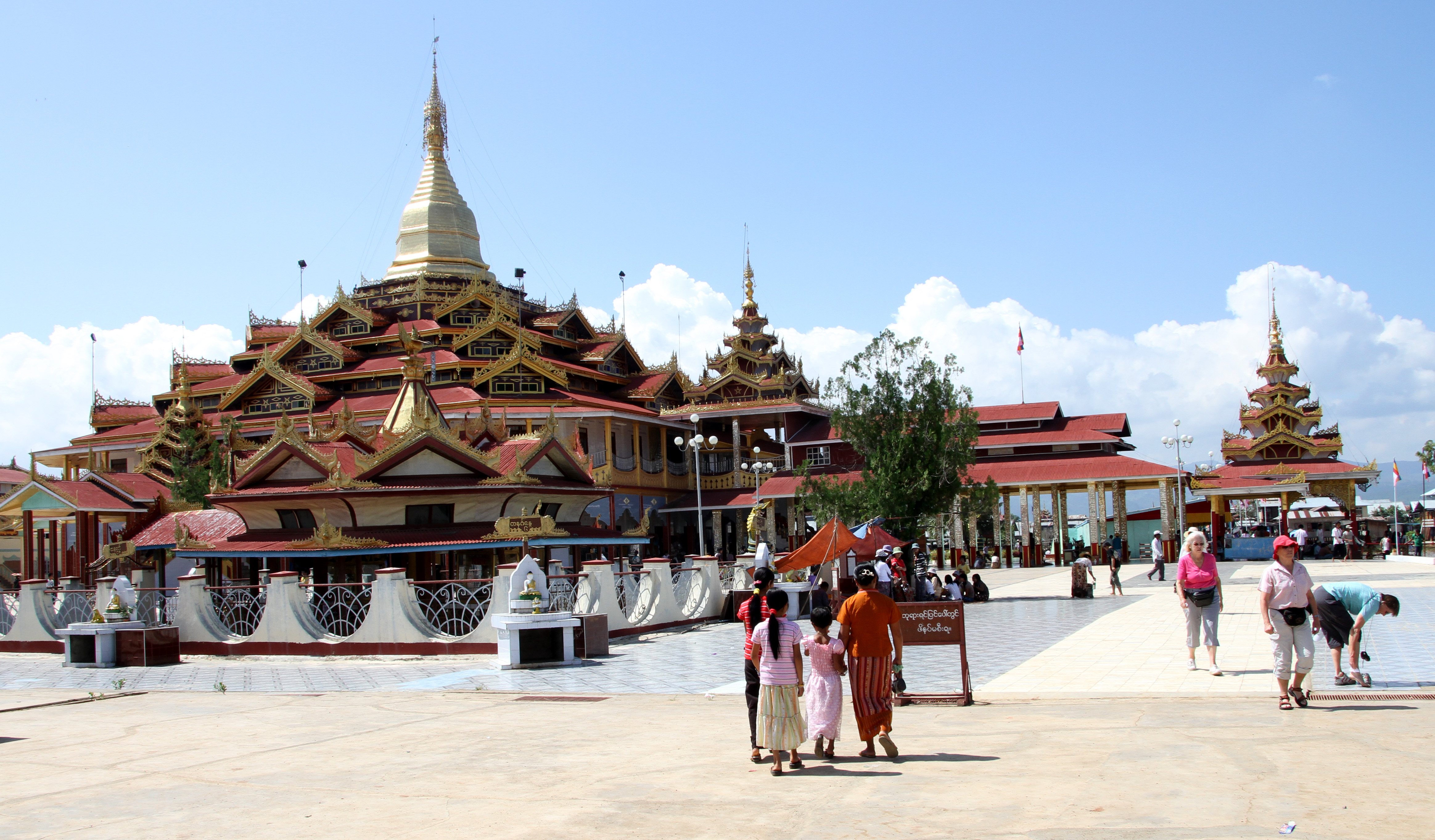 Phaung Daw U monastery at Inle Lake in Myanmar.